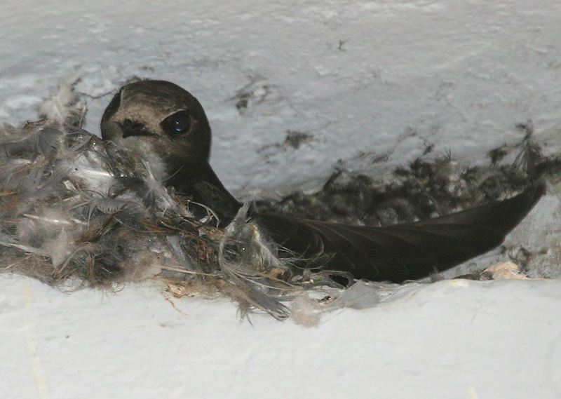 House Swift Apus affinis in Hyderabad , India.